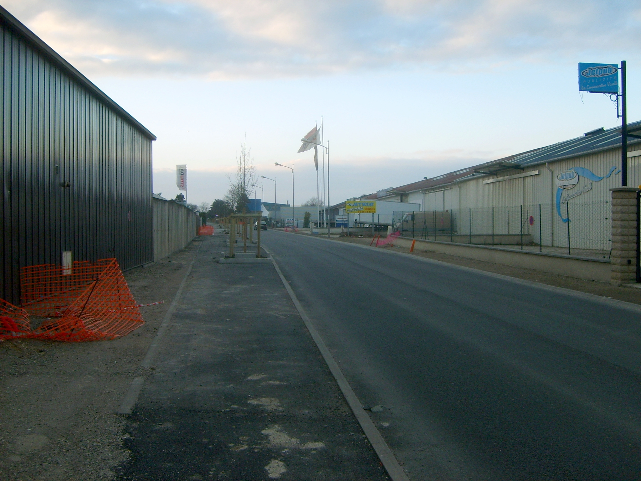 Industry of Brie Comte Robert